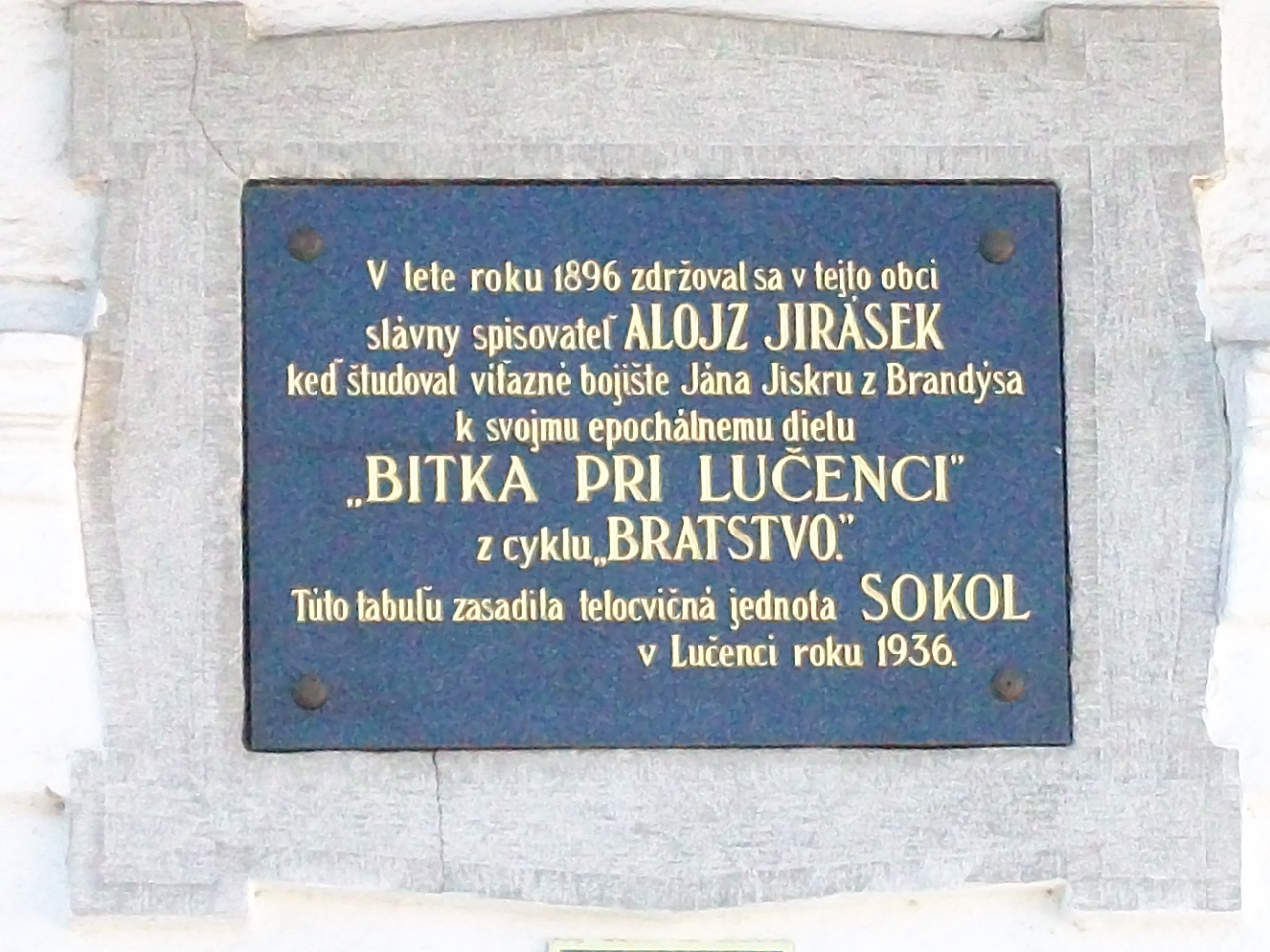 Alois Jirásek Memorial plaque in Lučenec.